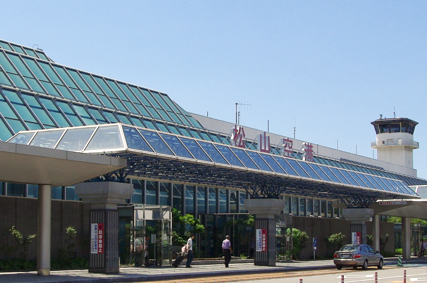 Photograph of Matsuyama Airport Domestic Passenger Terminal Building in Matsuyama, Ehime Prefecture, Japan.